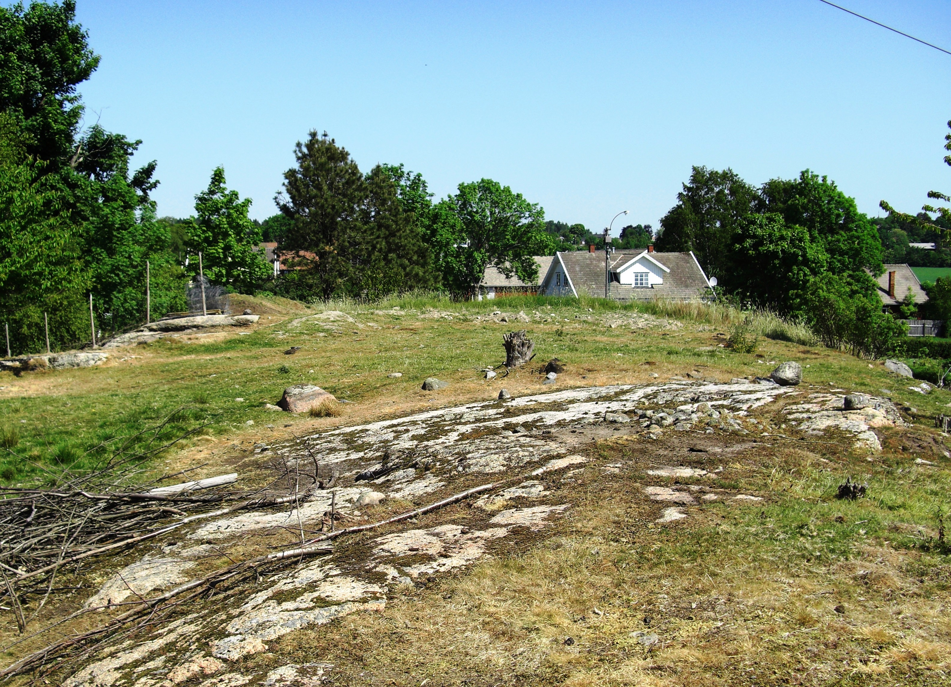 Site of hall building, Kaupang